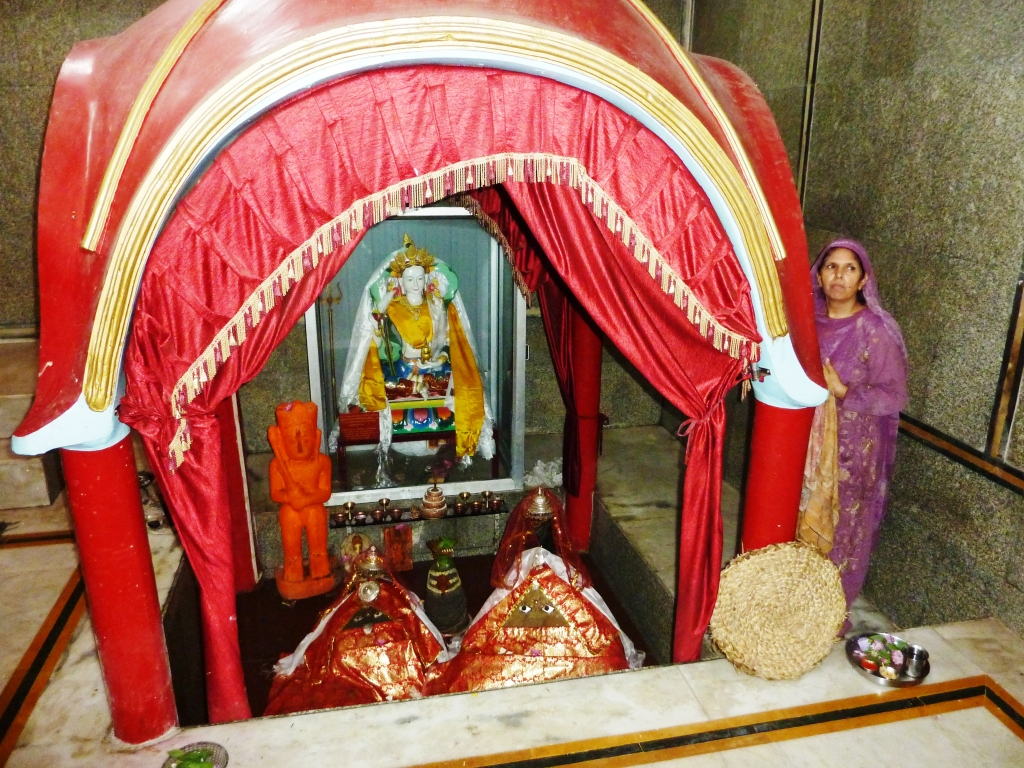 This photo was taken by myself on a recent visit to Mandi